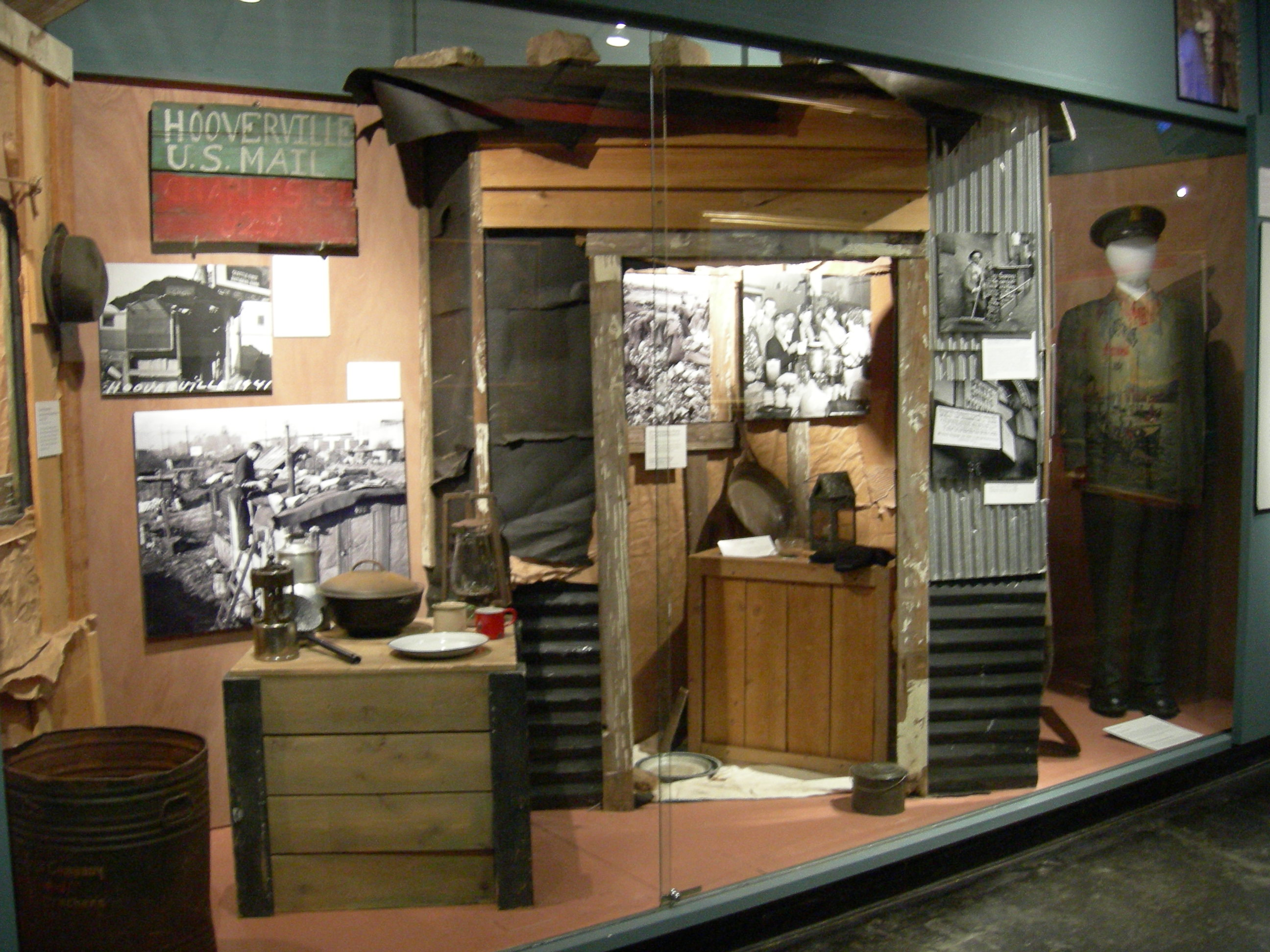 Exhibit on Seattle's 1930s Hooverville (squatter settlement), Museum of History and Industry (MOHAI), Seattle, Washington.